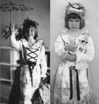 Child dressed in "Mary Poppins" costume, 1964. The Walt Disney Company had a very successful children's toy and costume merchandising campaign in conjunction with the Julie Andrews film.